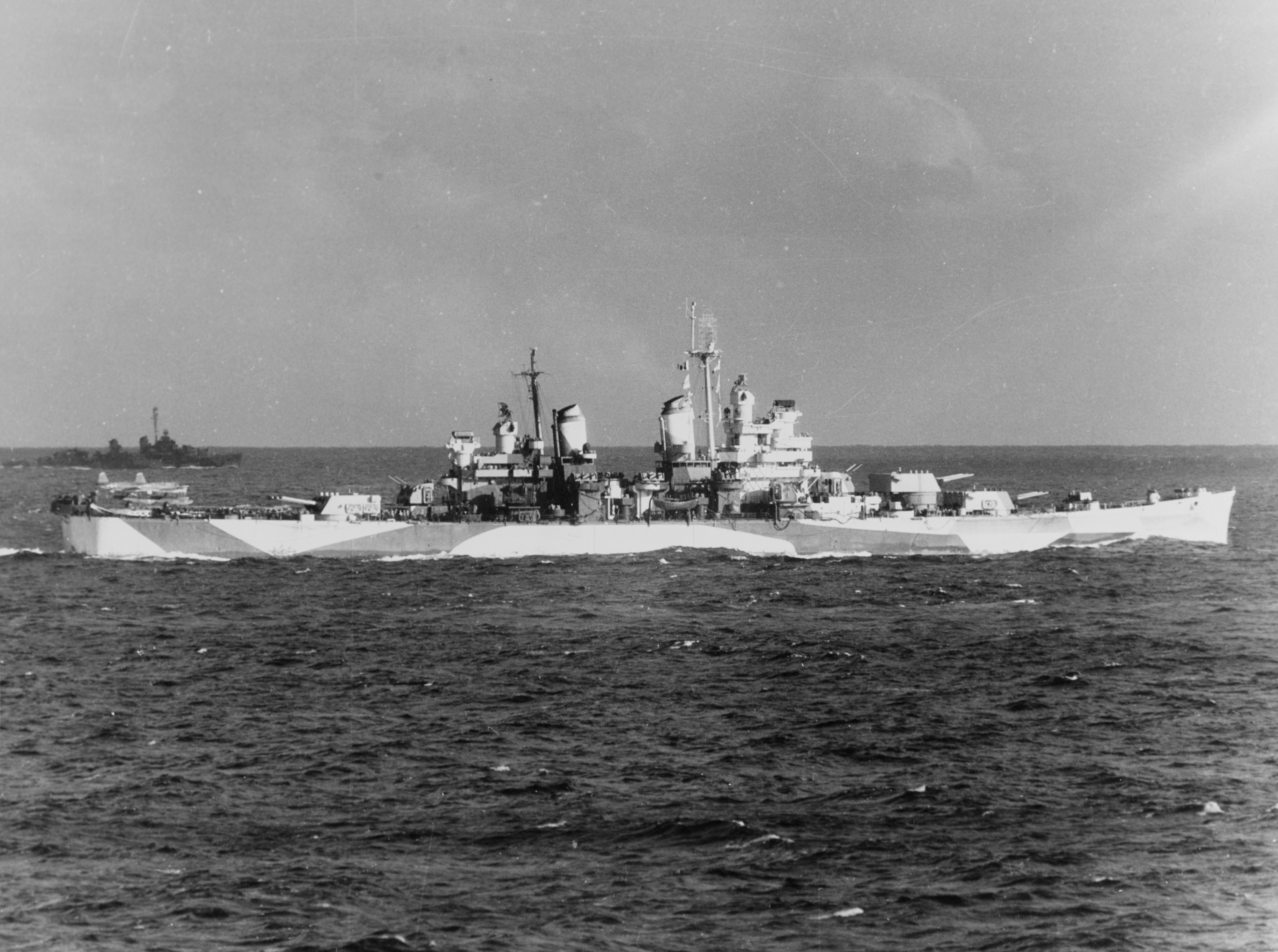 The U.S. Navy heavy cruiser USS Canberra (CA-70) operating with Task Force 38 in the Western Pacific, 10 October 1944, three days before she was torpedoed off Formosa. Her camouflage is Design 18a in the Measure 31-32-33.